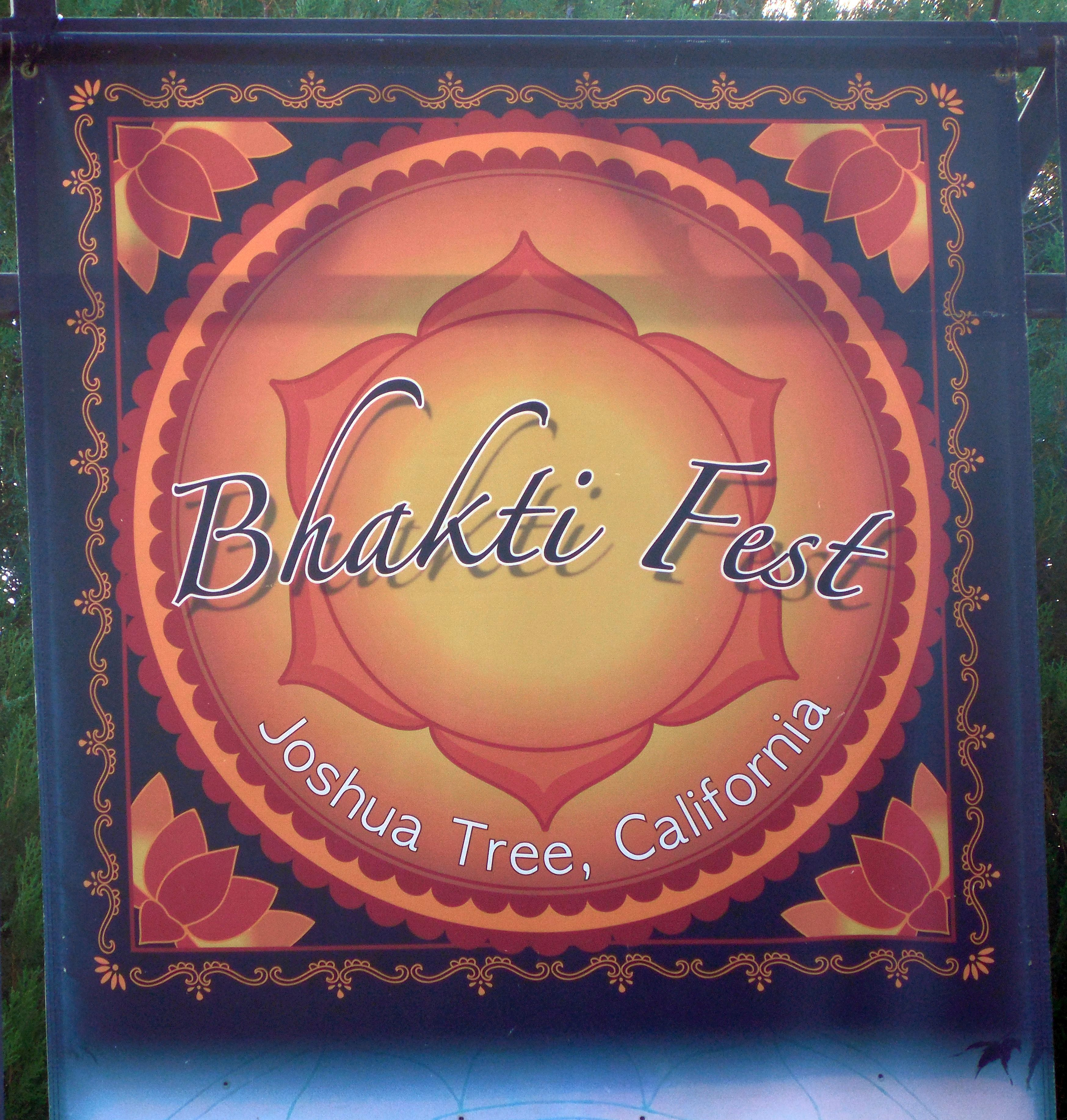 Bhakti Fest West banner, Joshua Tree, California, September 2017